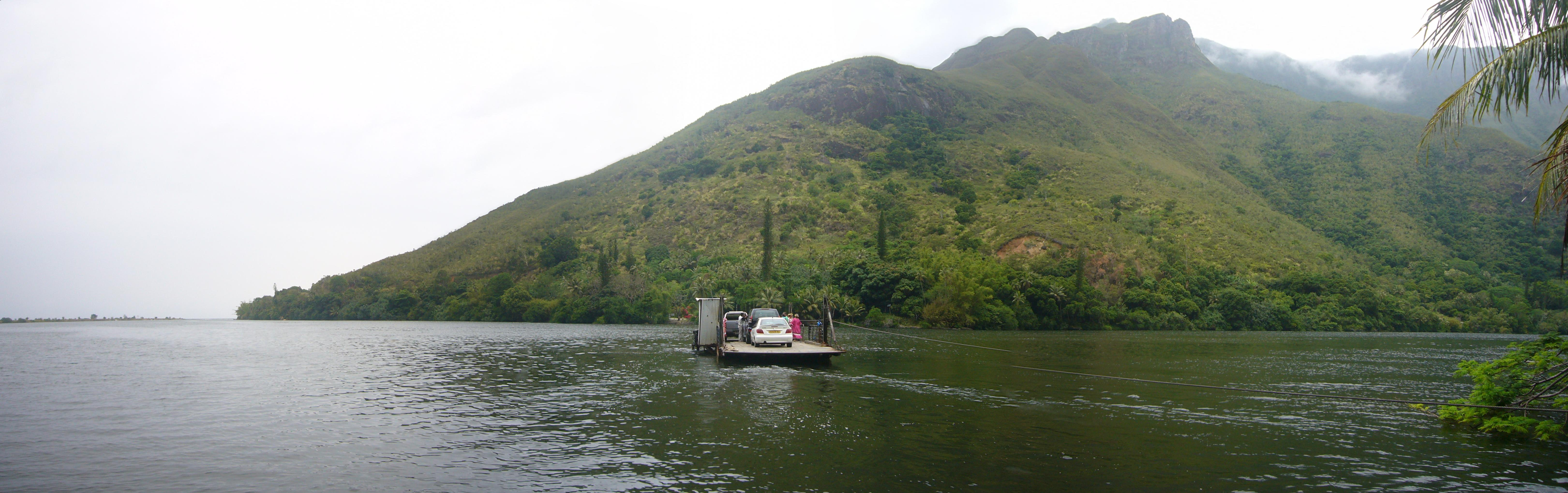 left bank of the Ouaieme barge